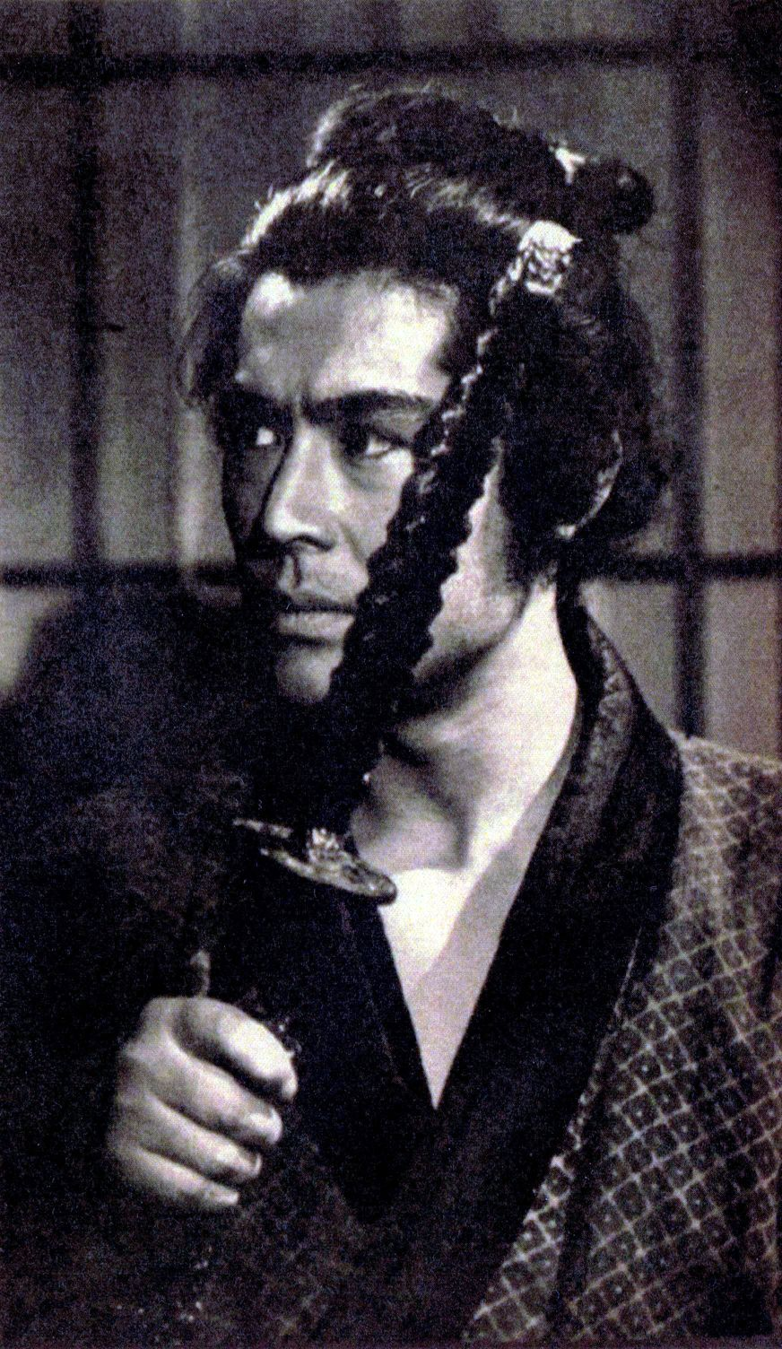 Go Kato